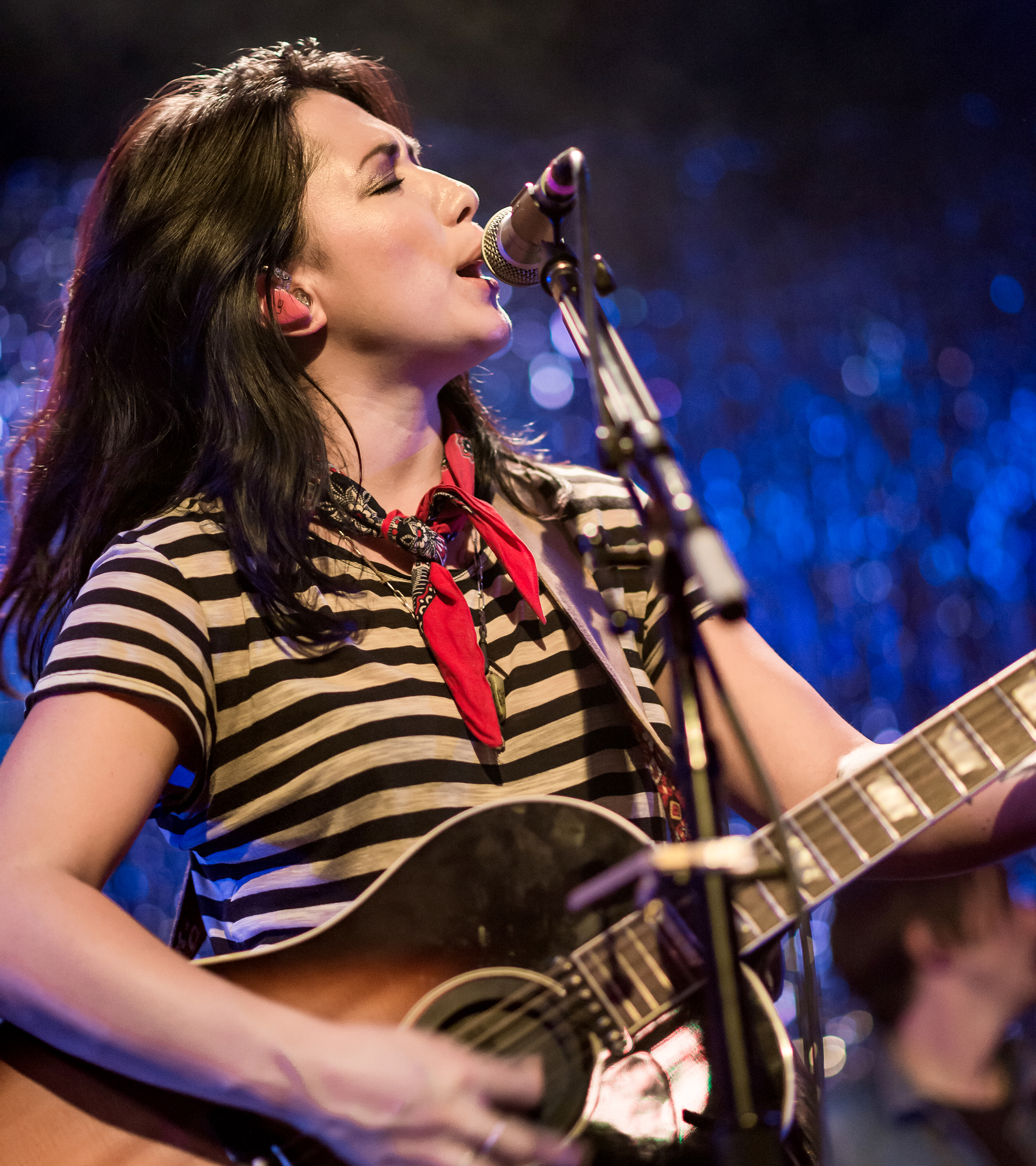 Michelle Branch performing live at Slim's in San Francisco, California, on Friday, July 21, 2017. Part of her "Hopeless Romantic" tour.